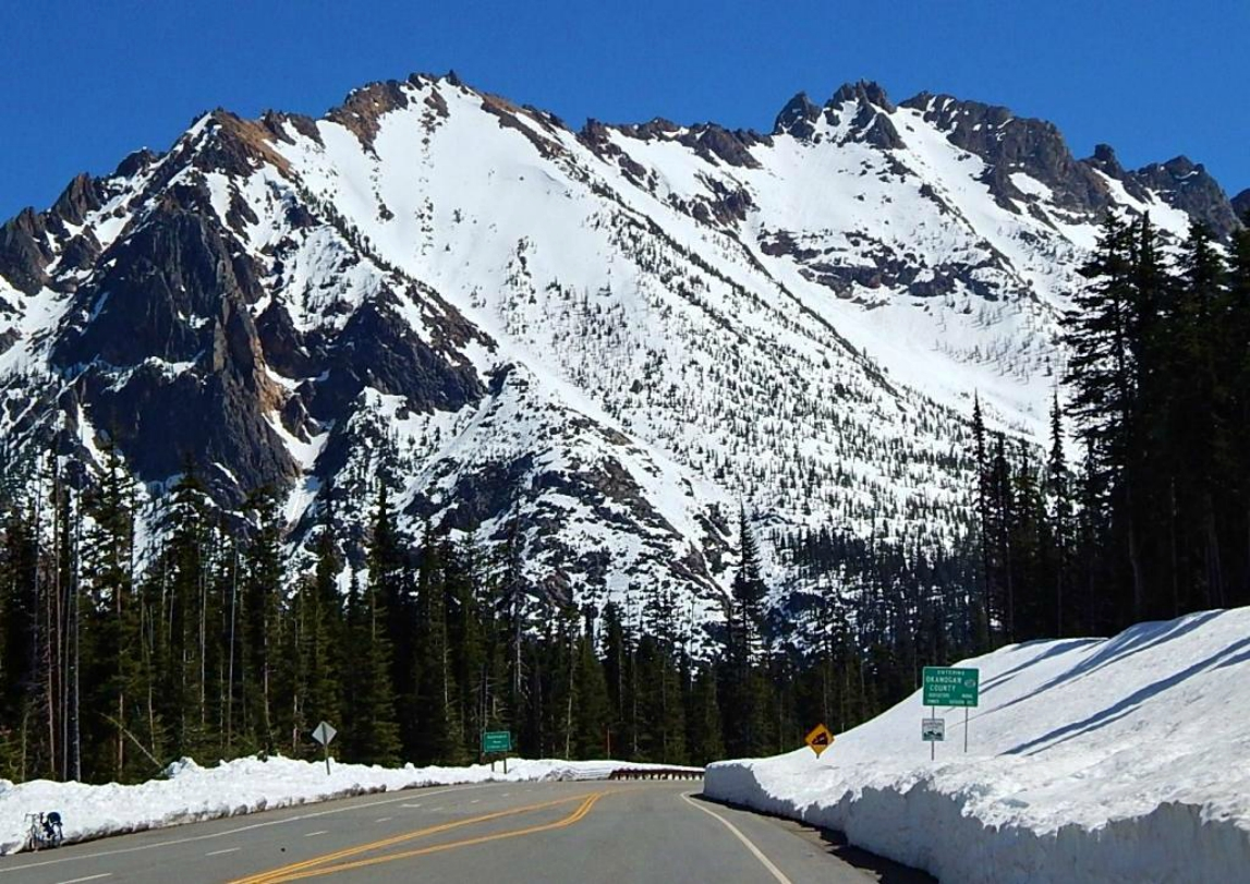 Kangaroo Ridge seen from the North Cascades Highway at Washington Pass.